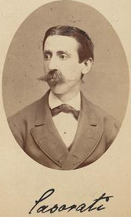 Felice Casorati, 19th century Italian mathematician